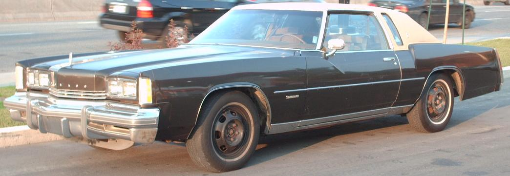 1975 Oldsmobile Toronado photographed in Montreal, Quebec, Canada.